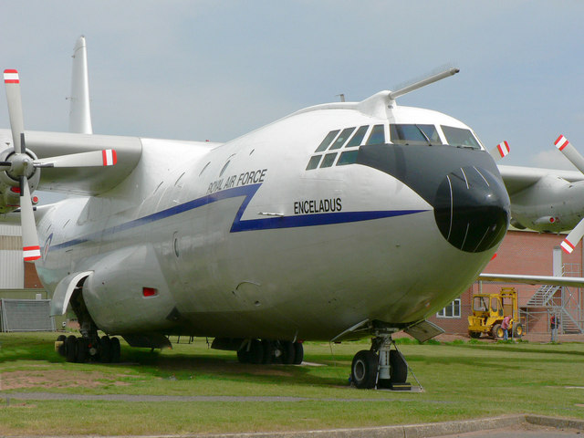 Short Belfast on display at RAF Cosford Museum One of only ten such aircraft, XR371 was named Enceladus after one of the giant children of Gaia in Greek mythology. The Belfast was, in its time, the largest aircraft in the RAF fleet weighing 56 tons empty, double that when fully laden. It could carry 150 fully-equipped troops, a Chieftain tank or two Wessex helicopters and even had the capacity to carry two single deck buses in its hold. Belfasts operated all over the world on delivery flights for the armed forces but because of their inadequate range they were phased out of service in 1976. Sseveral were sold to by Heavy Lift Cargo Airlines Ltd. who operated them commercially carrying, among other varied cargo, equipment for the armed forces! Enceladus was delivered to the RAF museum for preservation at Cosford in the Autumn of 1978.